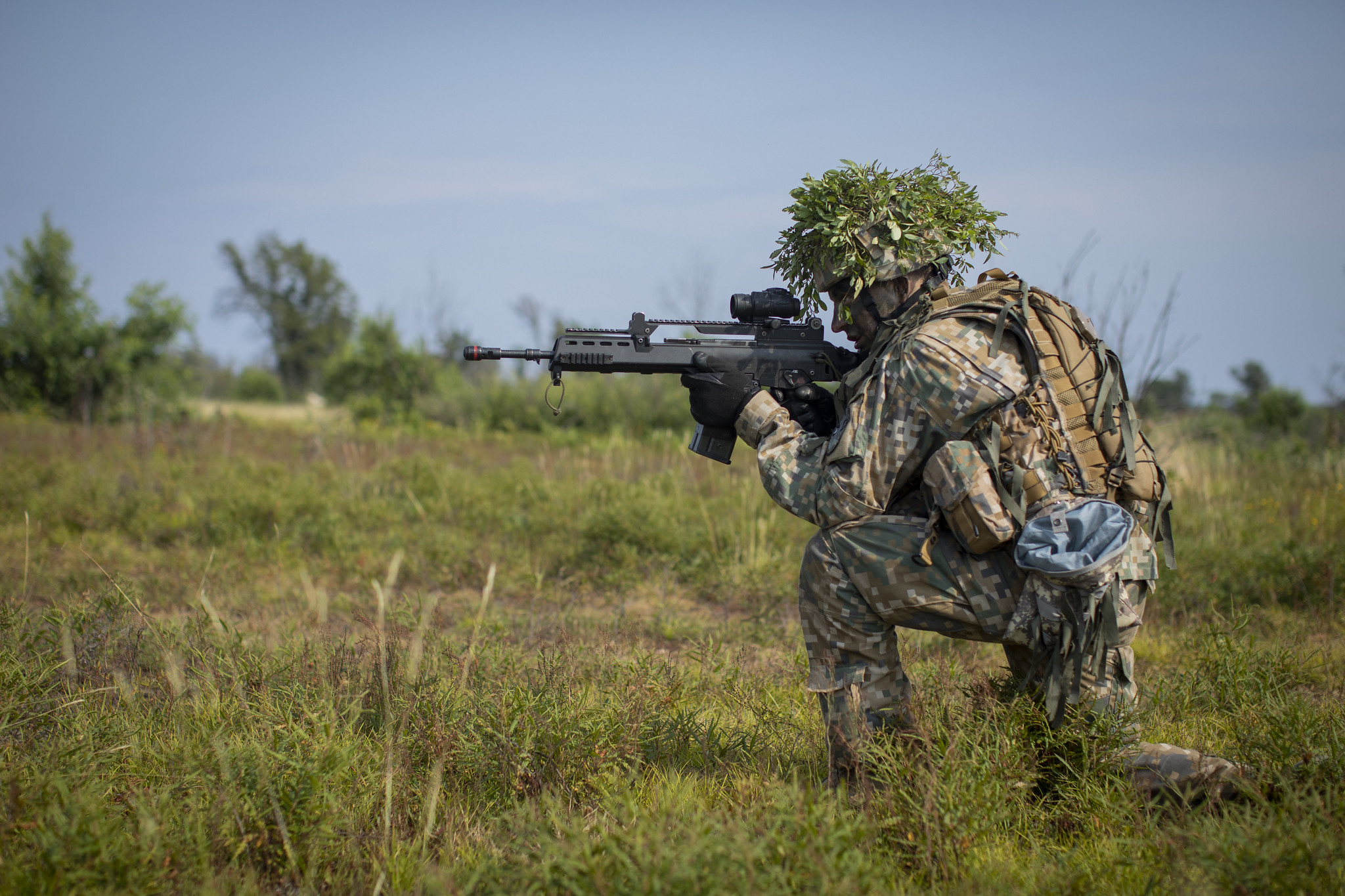 A Latvian Soldier from the Latvian National Guard’s 2nd Brigade, 25th Infantry Battalion aims at targets during tactical training at the Camp Grayling Joint Maneuver Training Center, Mich., during Northern Strike 19, July 24, 2019.